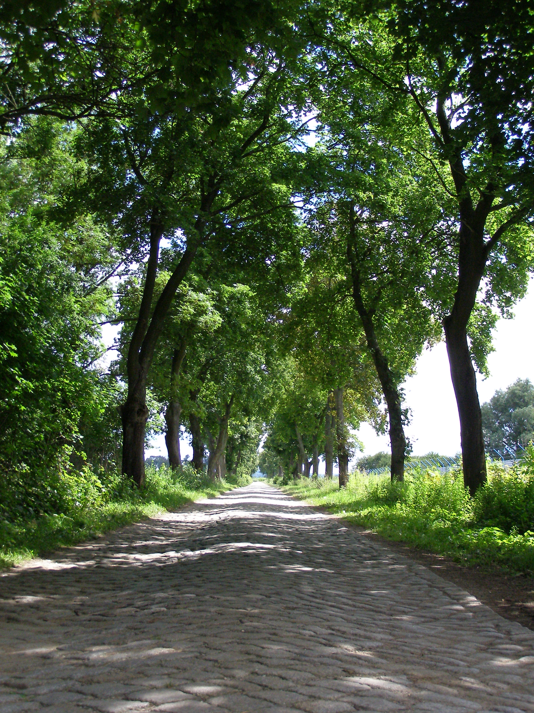 Klecie - cobblestone road